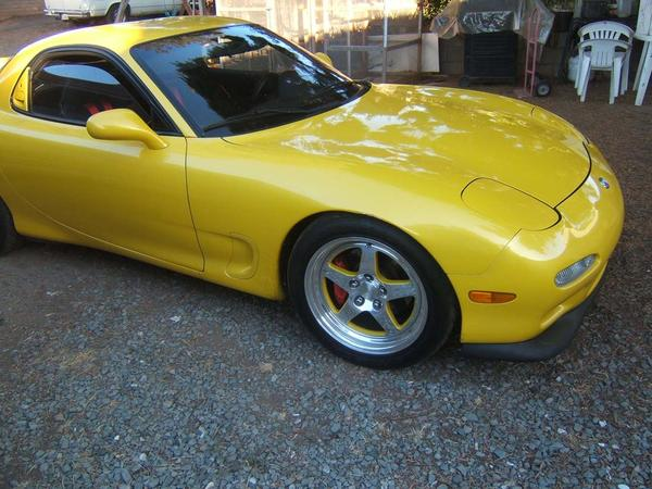 A 1993 CYM (Competition Yellow Mica) Rx-7.